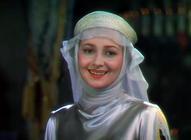 Olivia de Havilland in a screen capture from the film trailer for The Adventures of Robin Hood, 1938